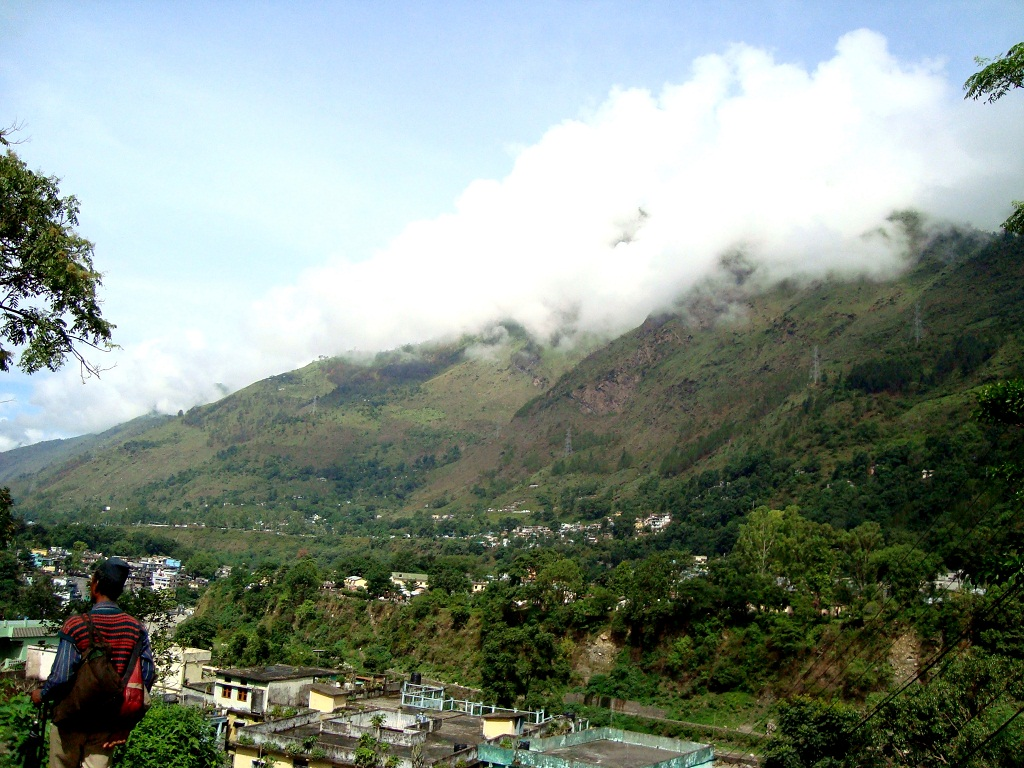 Mountain view from Bangabagad, From Dharchula, Uttarakhand, India